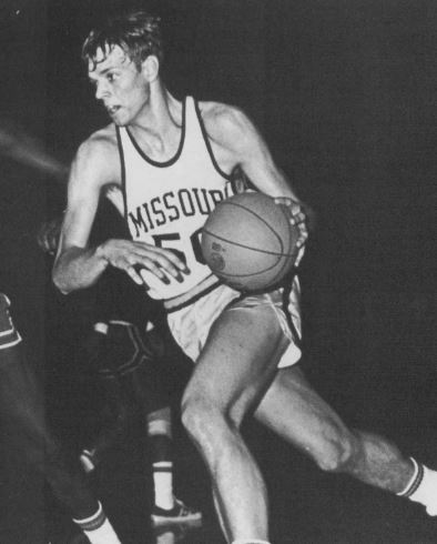 American college basketball player John Brown of the University of Missouri Tigers during the 1970-71 season